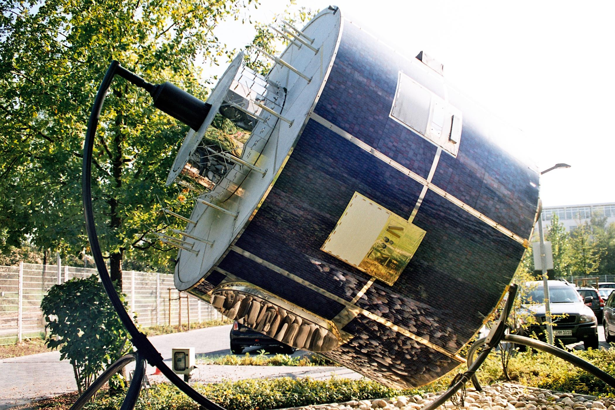 MSG (Meteosat Second Generation) model, Darmstadt, Germany, at the front of the EUMETSAT building. Taken by me, October 2006.